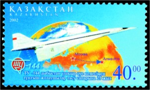 Stamp of Kazakhstan